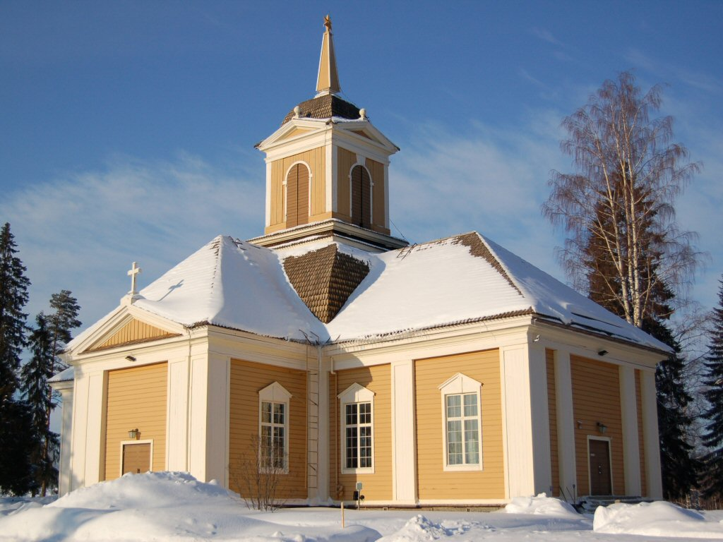 The church of Ylikiiminki parish in Ylikiiminki, Finland. The church is designed by Jacon Rijf and it is likely to have been completed in 1786.